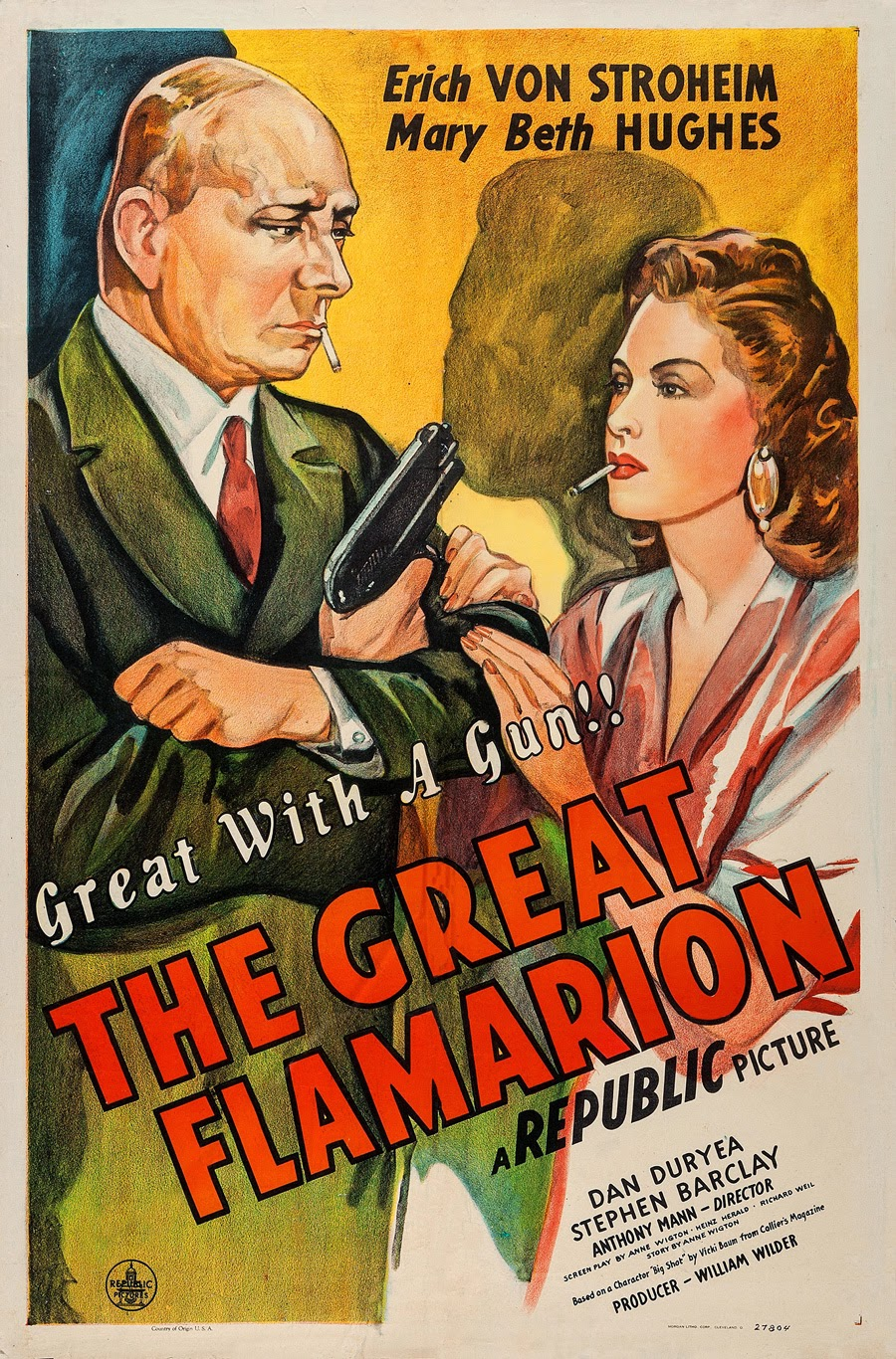 Poster for the 1945 film The Great Flamarion. The item has no copyright markings on it as can be seen in the links above. At bottom is Country of origin USA, Morgan Litho Corp, Cleveland, O--they printed the poster-- and 27604. These look to be associated with the printing of the poster.